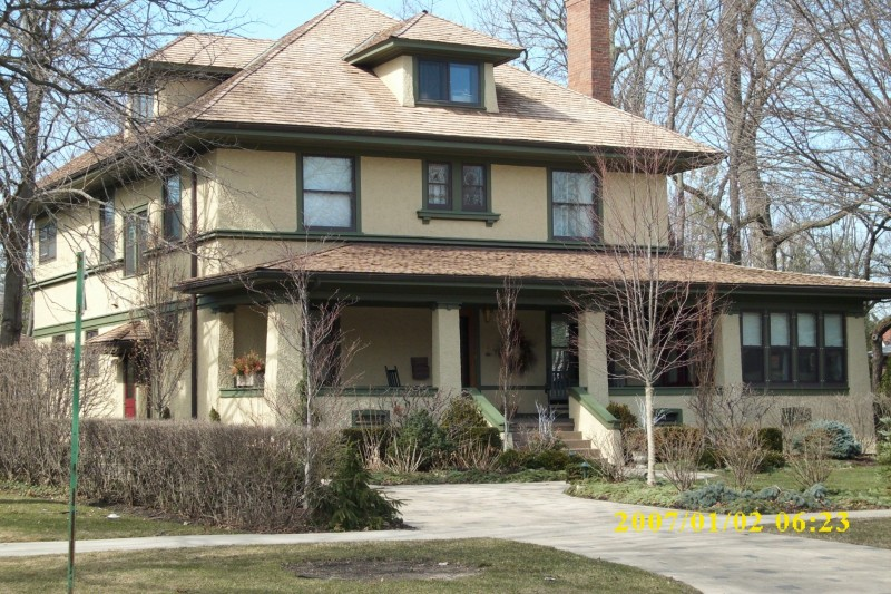 This is a photgraph taken by me of a house at 141 Kenilworth Ave, In Kenilworth IL 60043 on the National Registry of Historic Places